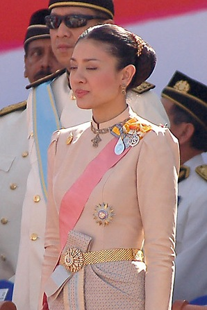 Maha Vajiralongkorn and Princess Srirasmi at the 50th Mederka National Day celebrations.